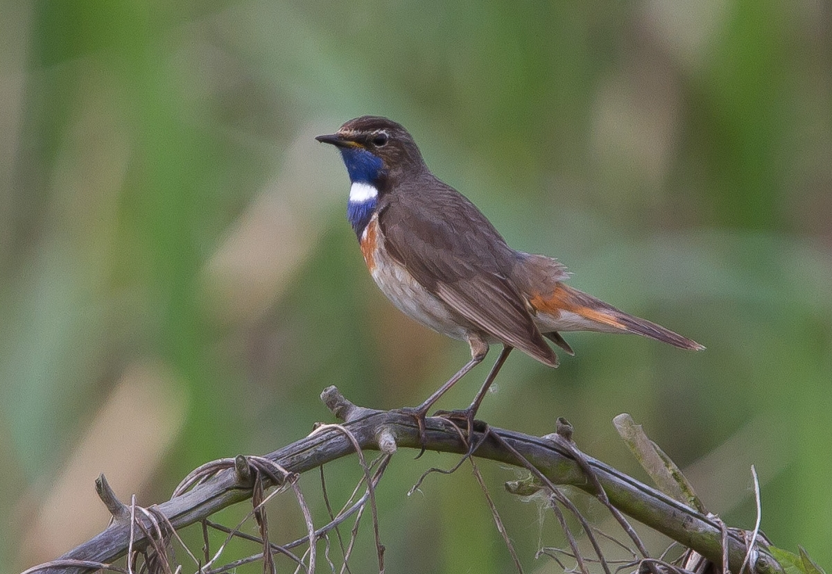 Bluethroat near Heidelberg, Germany